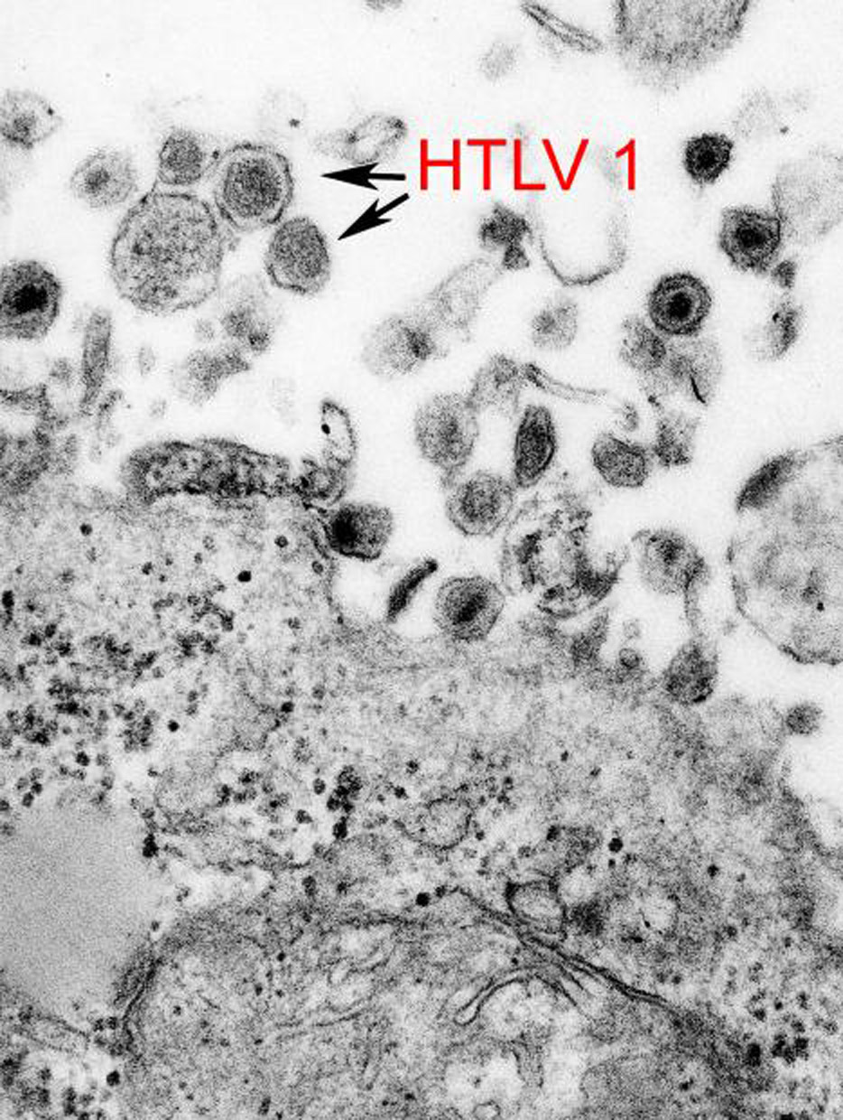 HTLV-1-Virus. Description see Image:HTLV-1 and HIV-1 EM 8241 lores.jpg